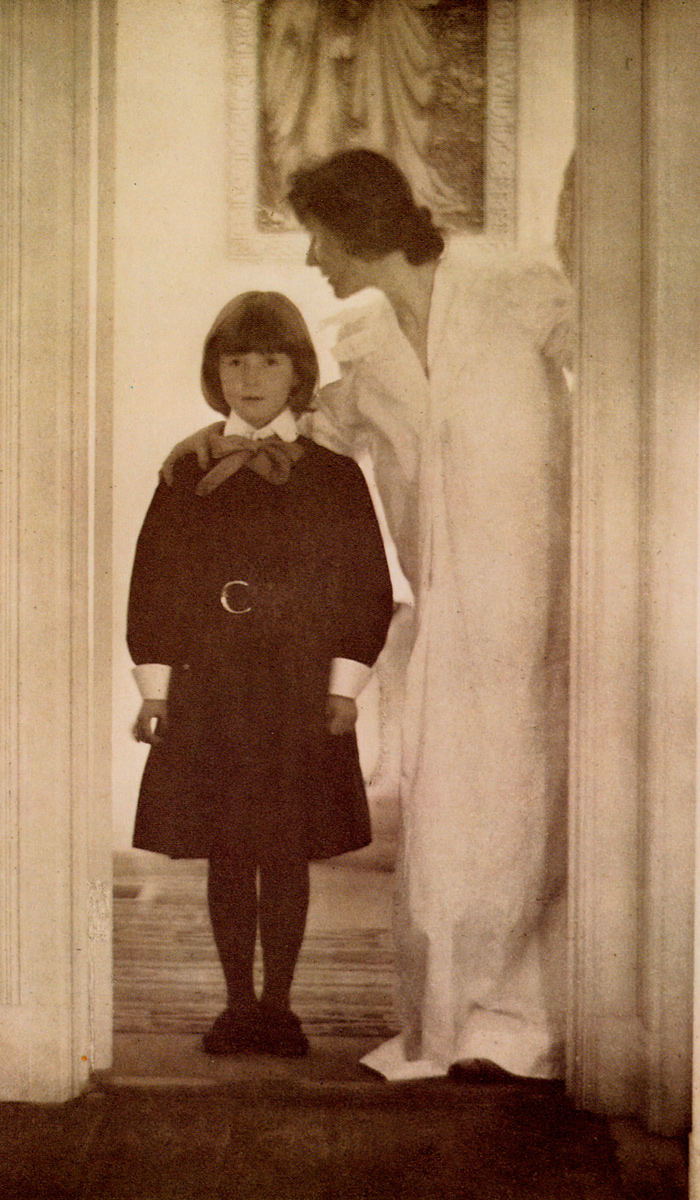 Blessed Art Thou among Women, a photograph by Gertrude Käsebier